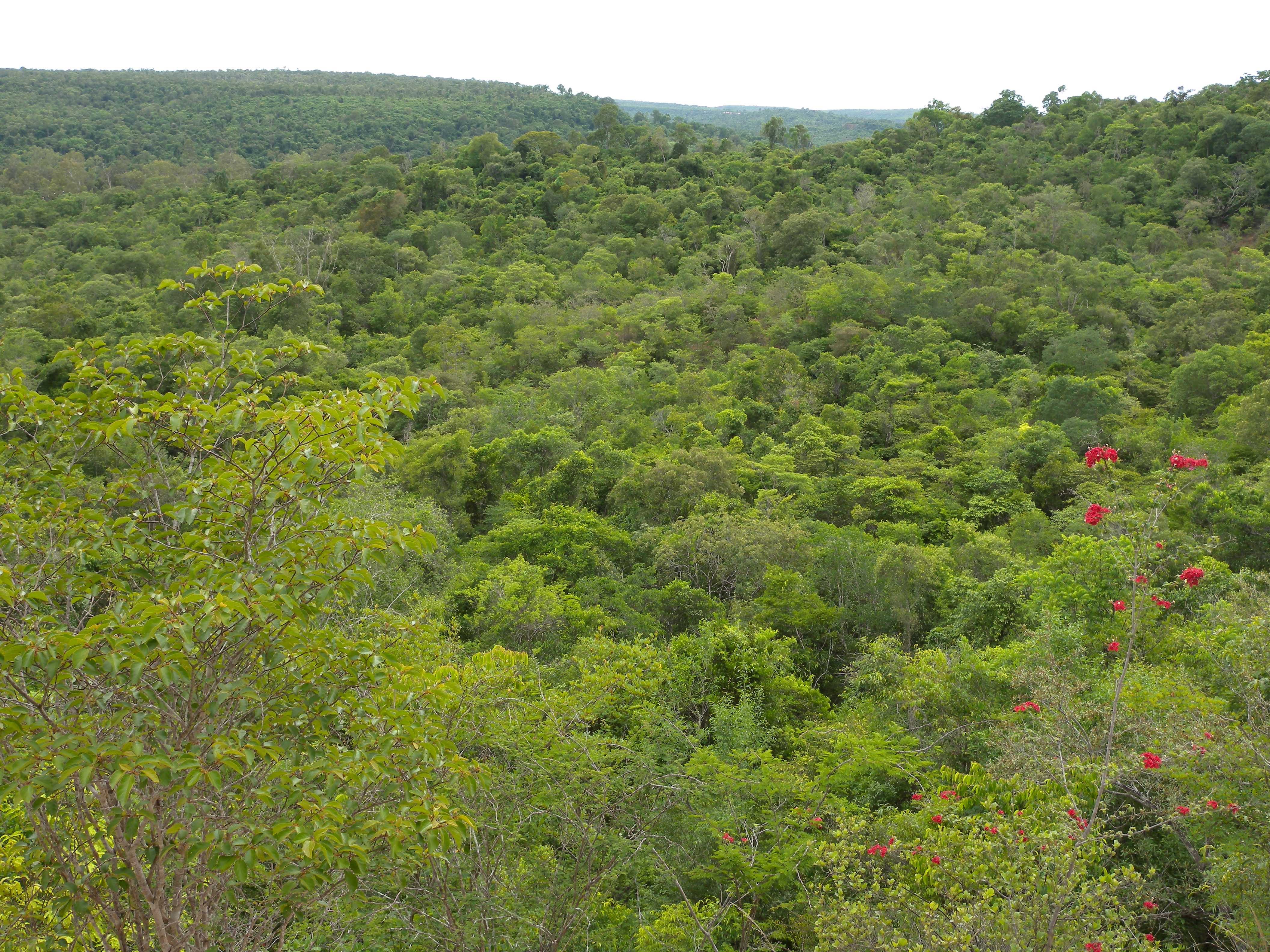 Western Dry Deciduous Forest, Ankarafantsika National Park, Madagascar